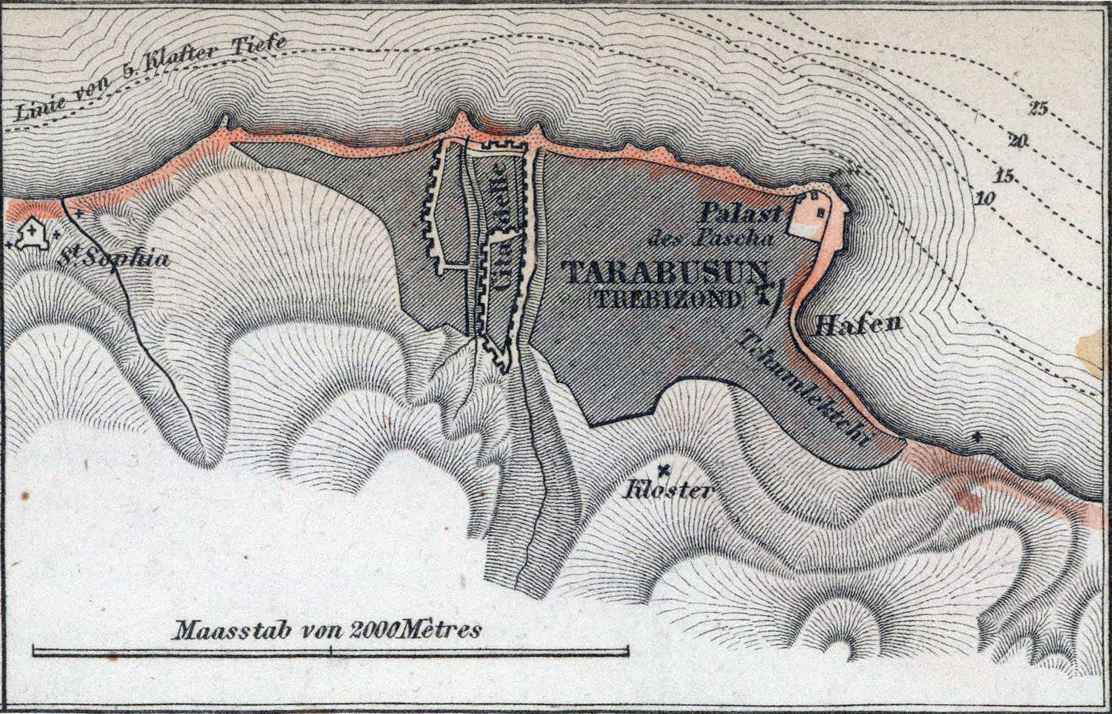 Map of Trebizond taken from the 'Special Asian Turkey' map.